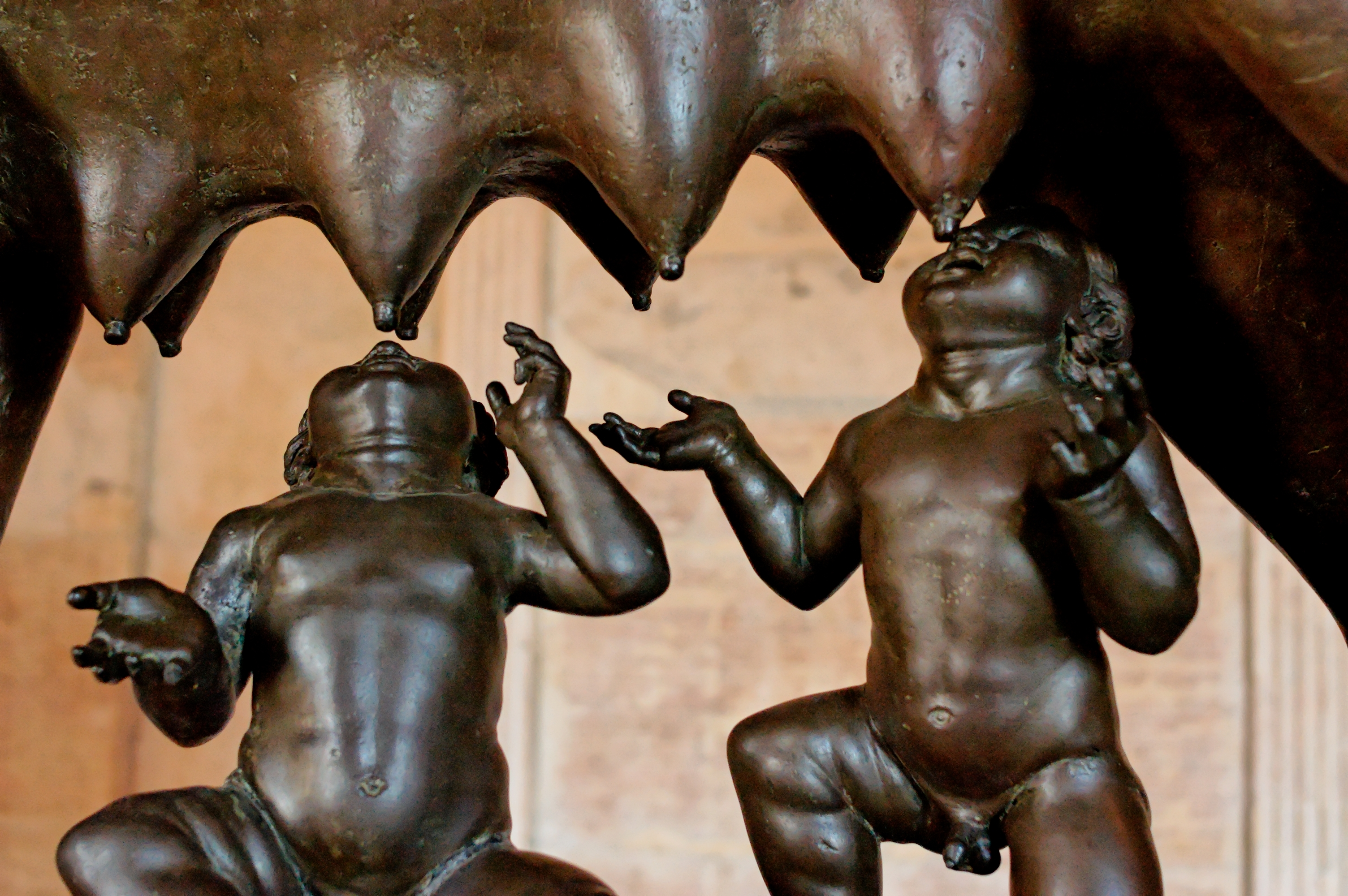 Detail of the so-called “Lupa Capitolina”: she-wolf with Romulus and Remus. Bronze, Etruscan artwork, 5th century BC (the twins are a 15th-century addition).